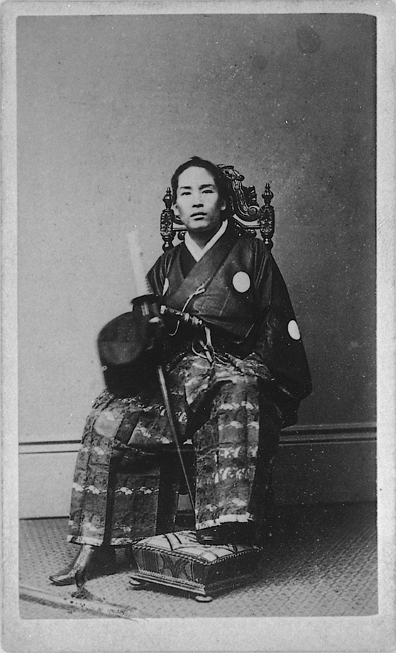 Portrait of Enomoto Takeaki (榎本武揚, 1836 – 1908)